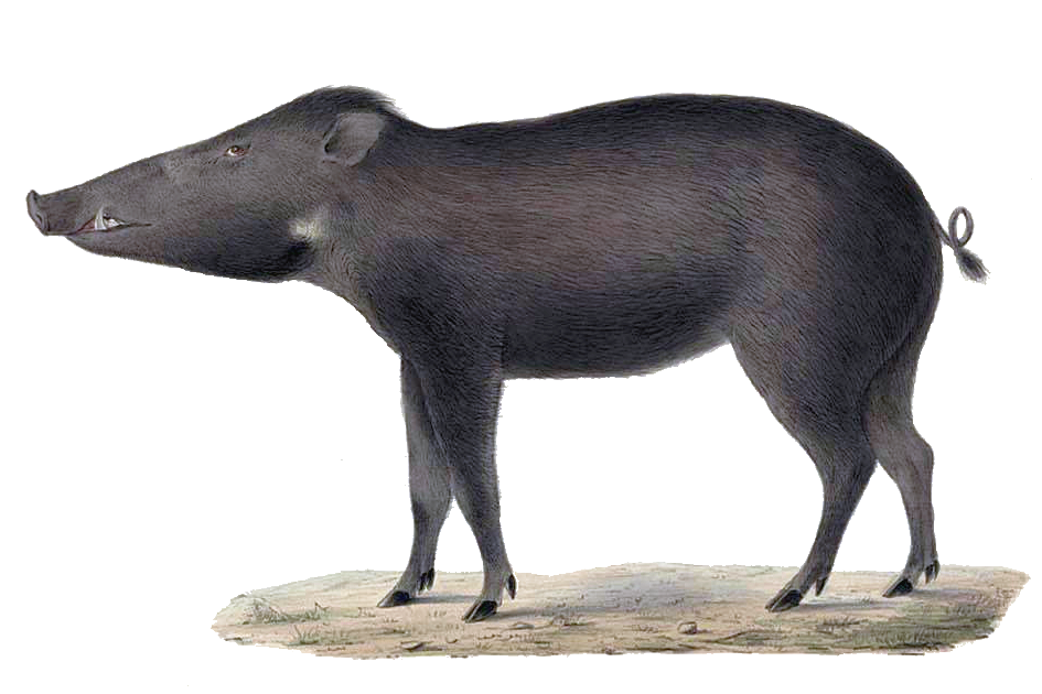 Sus celebensis